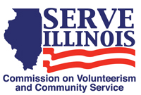 Serve Illinois Commission Logo.jpg